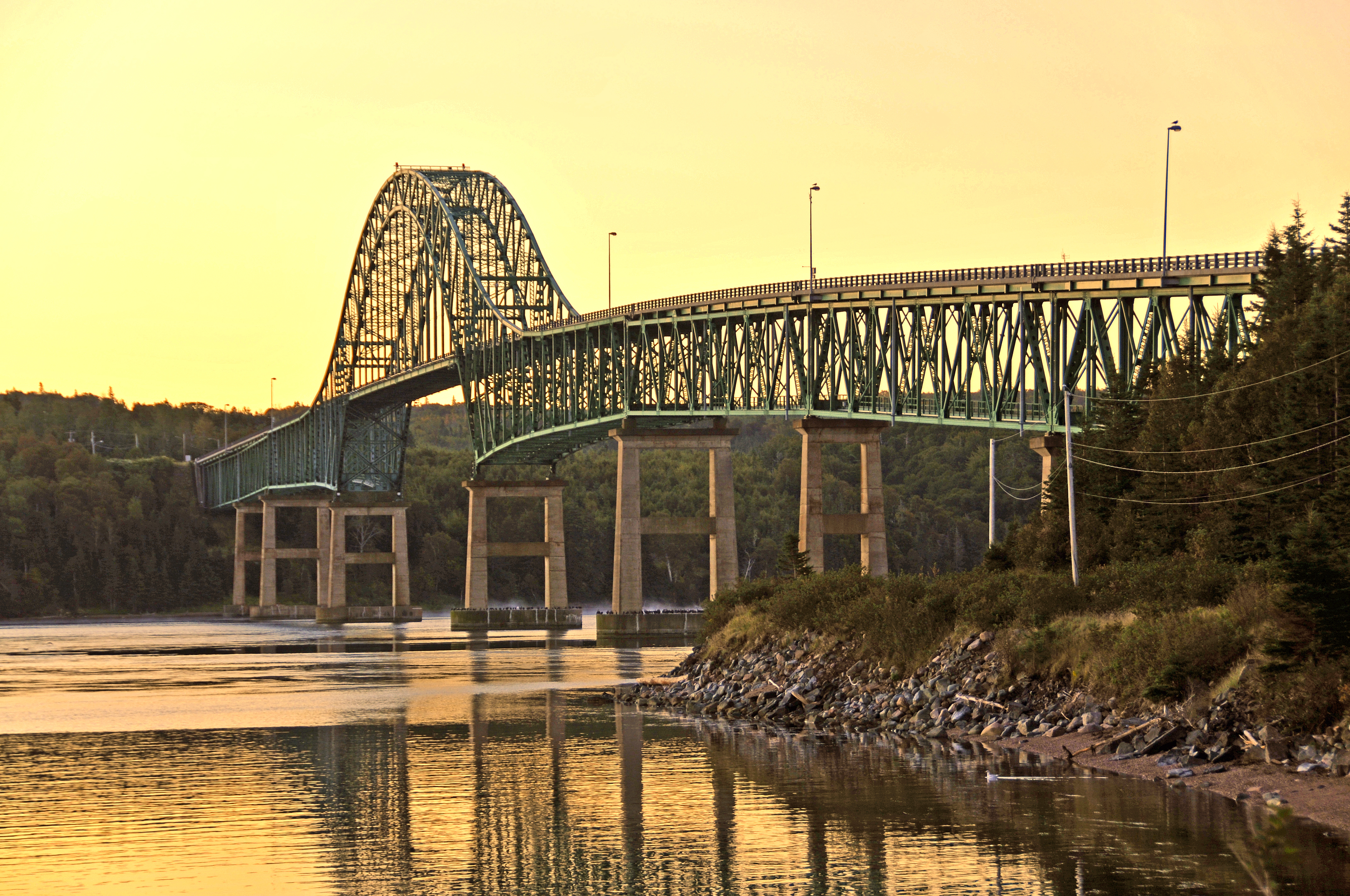 PLEASE, no multi invitations, glitters or self promotion in your comments. My photos are FREE for anyone to use, just give me credit and it would be nice if you let me know, thanks - NONE OF MY PICTURES ARE HDR. I decided to go under the bridge to see if I could get a closer view of the lighthouse. The Seal Island Bridge is located in Victoria County, Nova Scotia. It is an arch truss design and crosses the Great Bras d'Or channel of Bras d'Or Lake. With the third longest bridge span in the province, the Seal Island Bridge opened in 1961 as part of the Trans-Canada Highway project. It consists of eight steel truss spans: a main arch of 152 meters (500 ft), two side spans of 106 meters (350 ft), and five approach spans of 76 meters (250 ft).